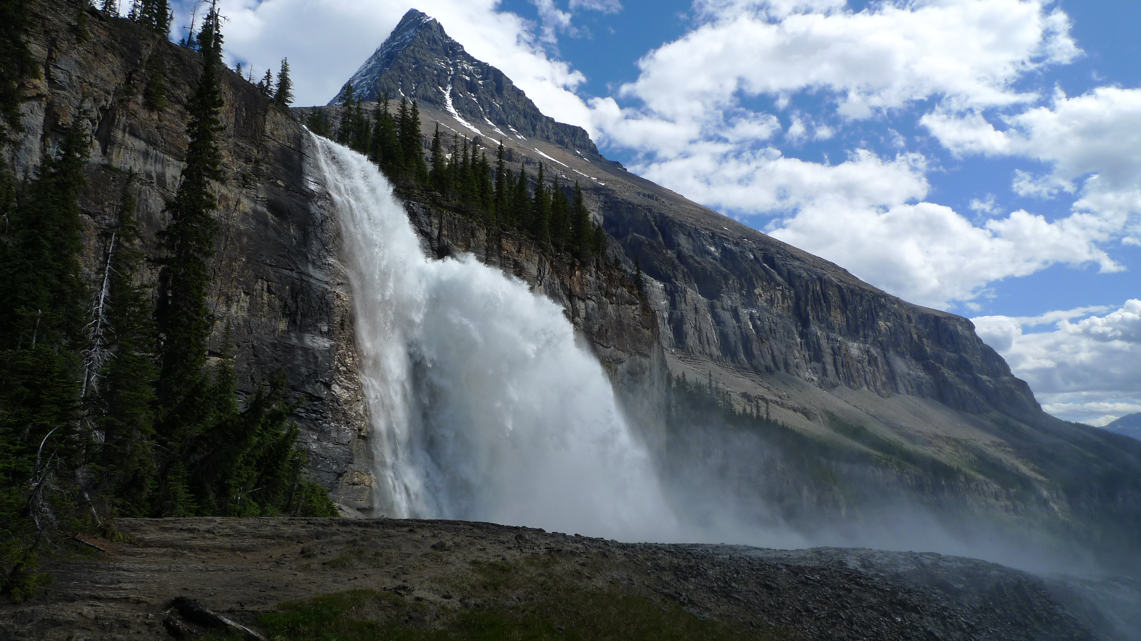 Photograph of Emperor Falls